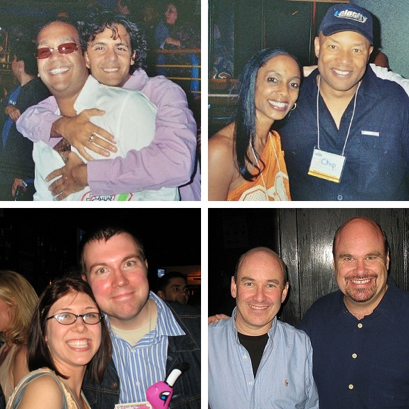 Montage of several The Amazing Race teams.